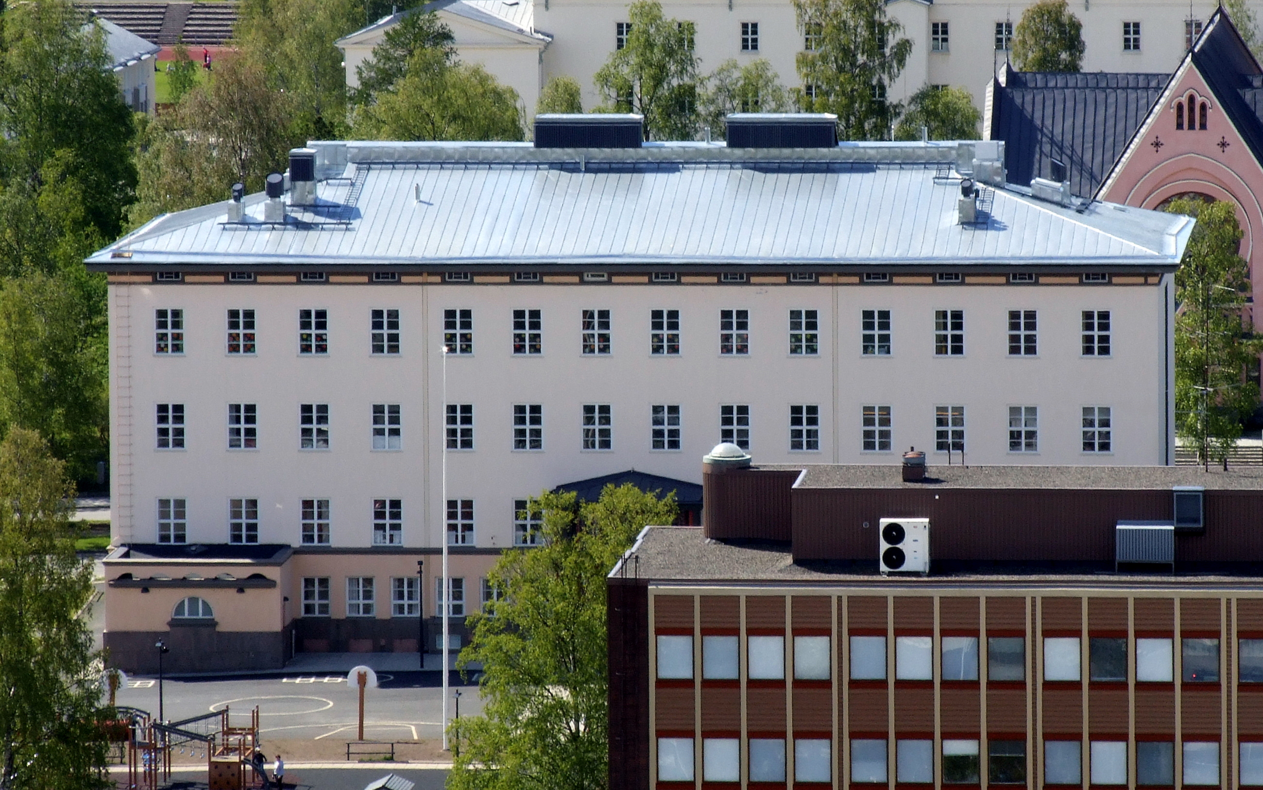 Sauvosaari primary school, Kemi, Finland. School building has been designed by architect Toivo Salervo and built in 1936